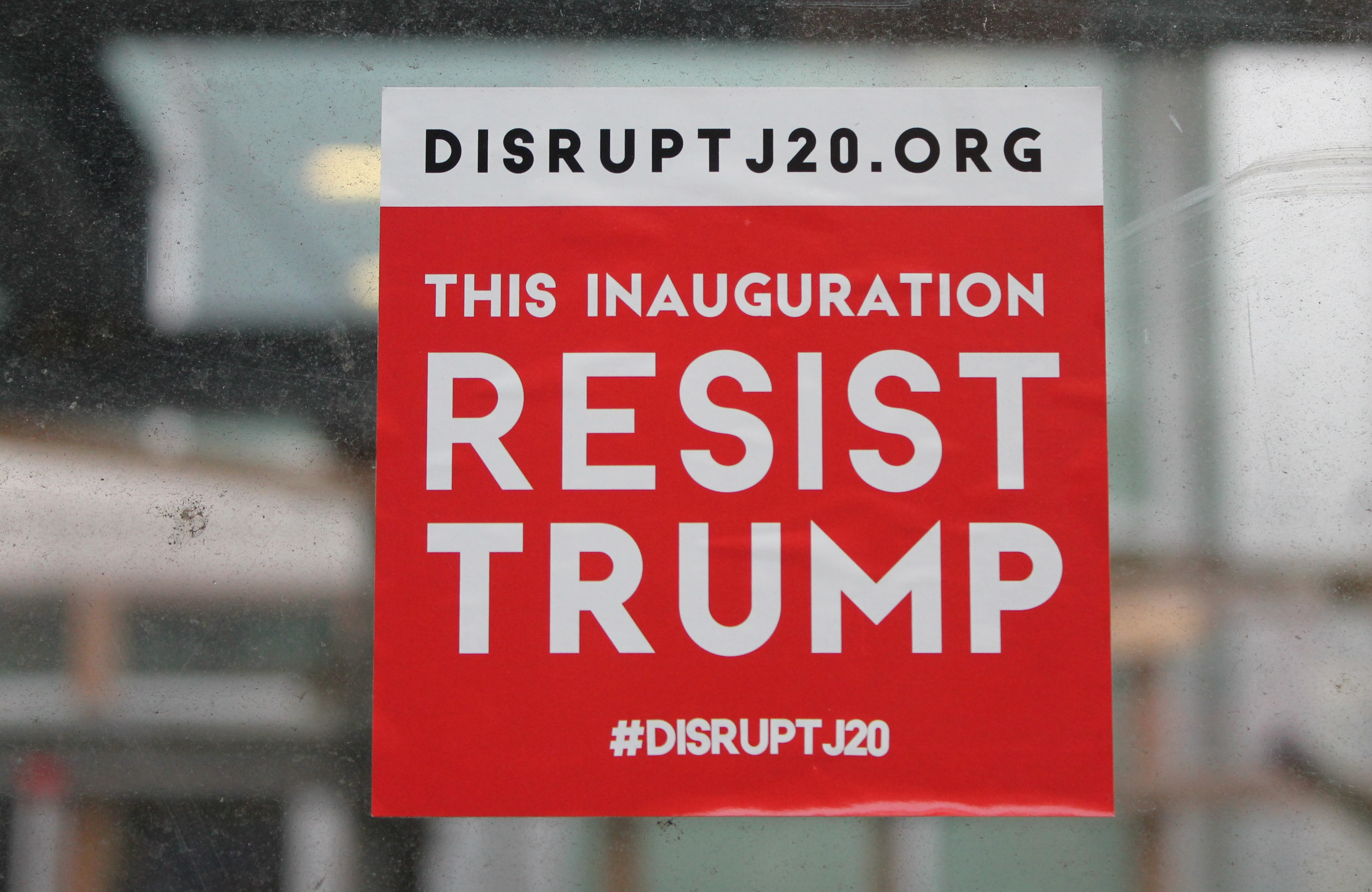 DISRUPT J20 THIS INAUGURATION RESIST TRUMP sticker at escalator construction site at the WMATA Shaw - Howard University Station on 7th at S Street, NW, Washington DC on Thursday afternoon, 5 January 2016 by Elvert Barnes Photography.